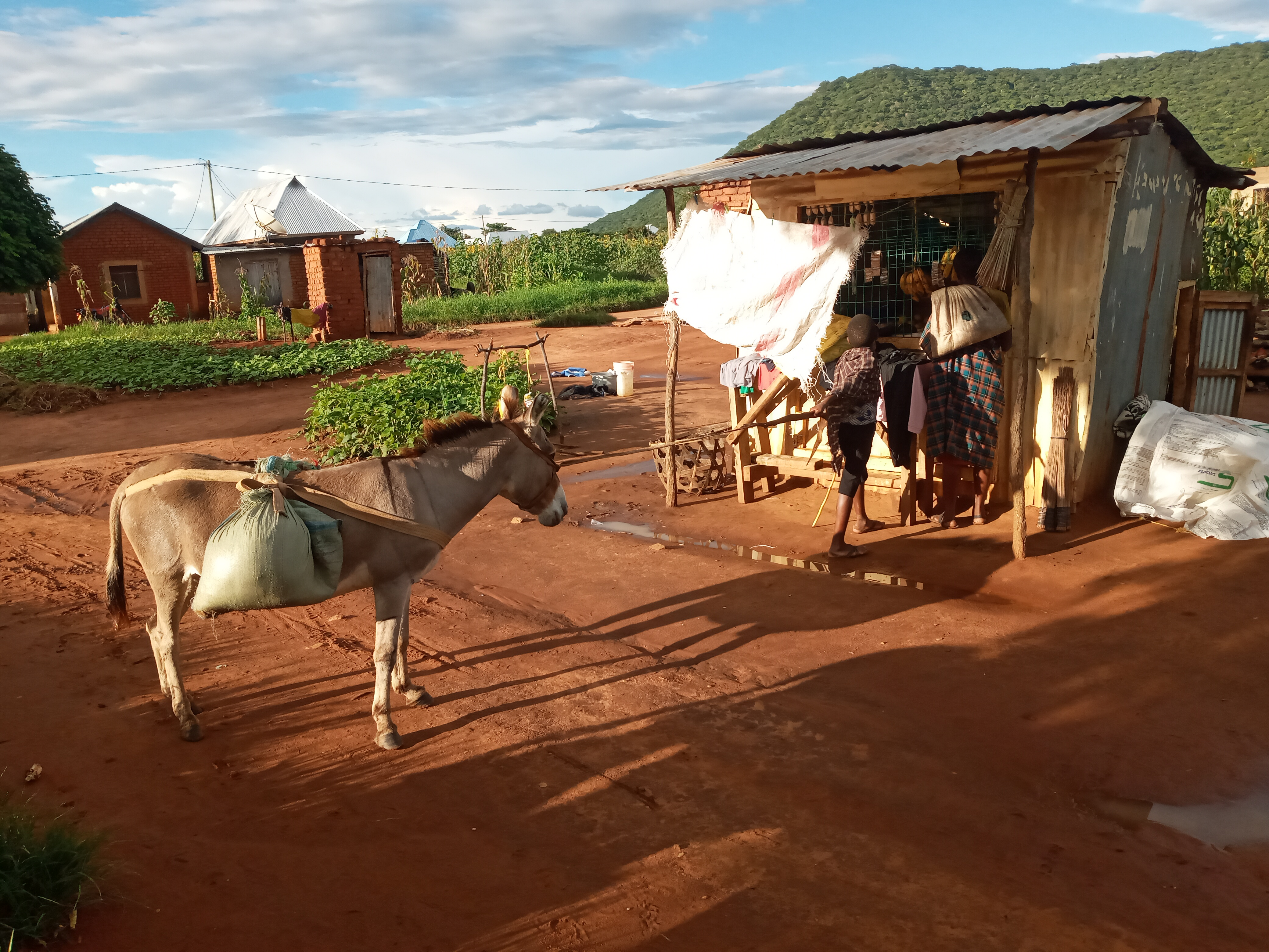 Donkey are important means of transport in Chemba District This is an image with the theme "Africa on the Move or Transport" from: Tanzania